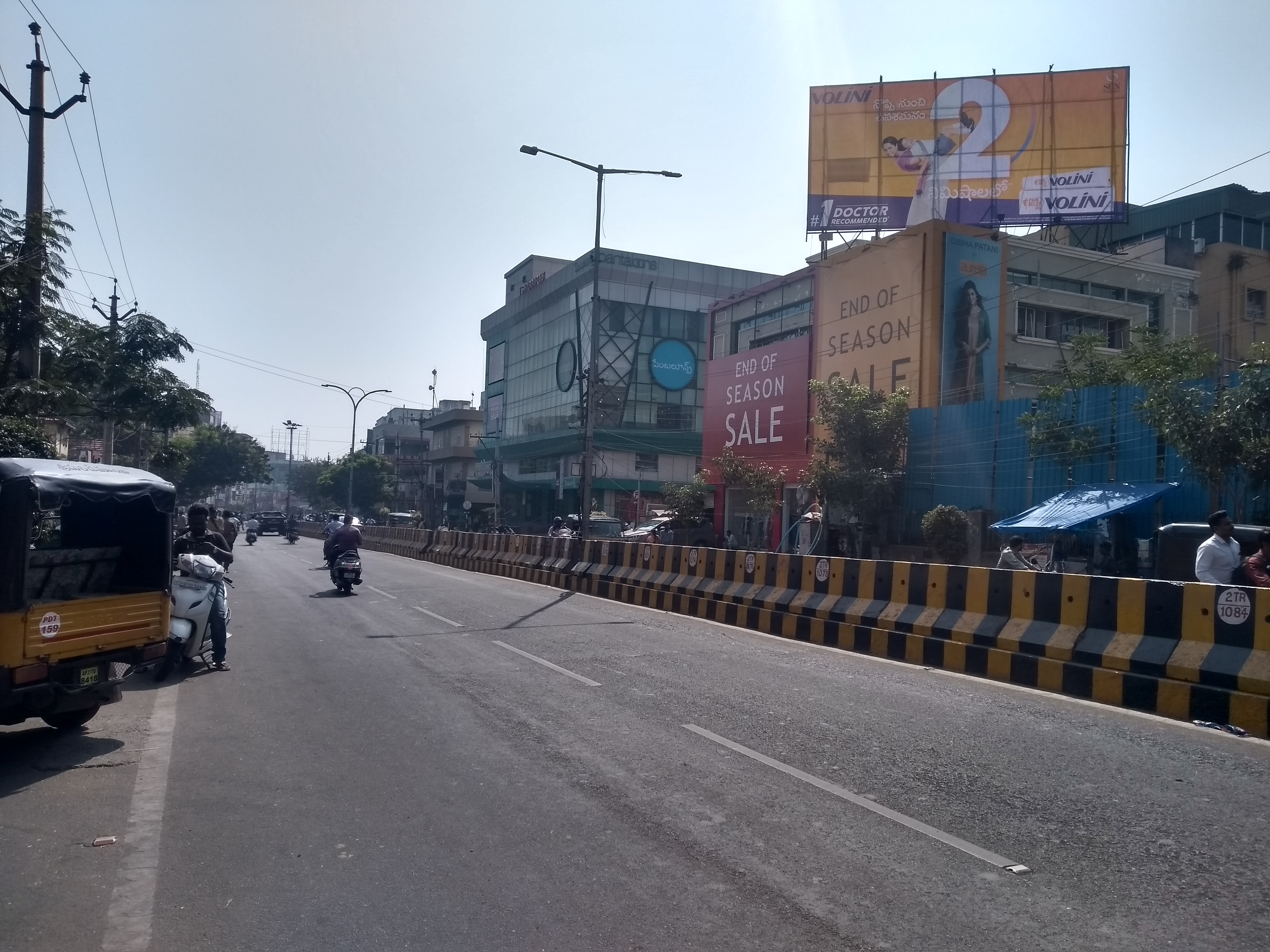 Dabagardens road